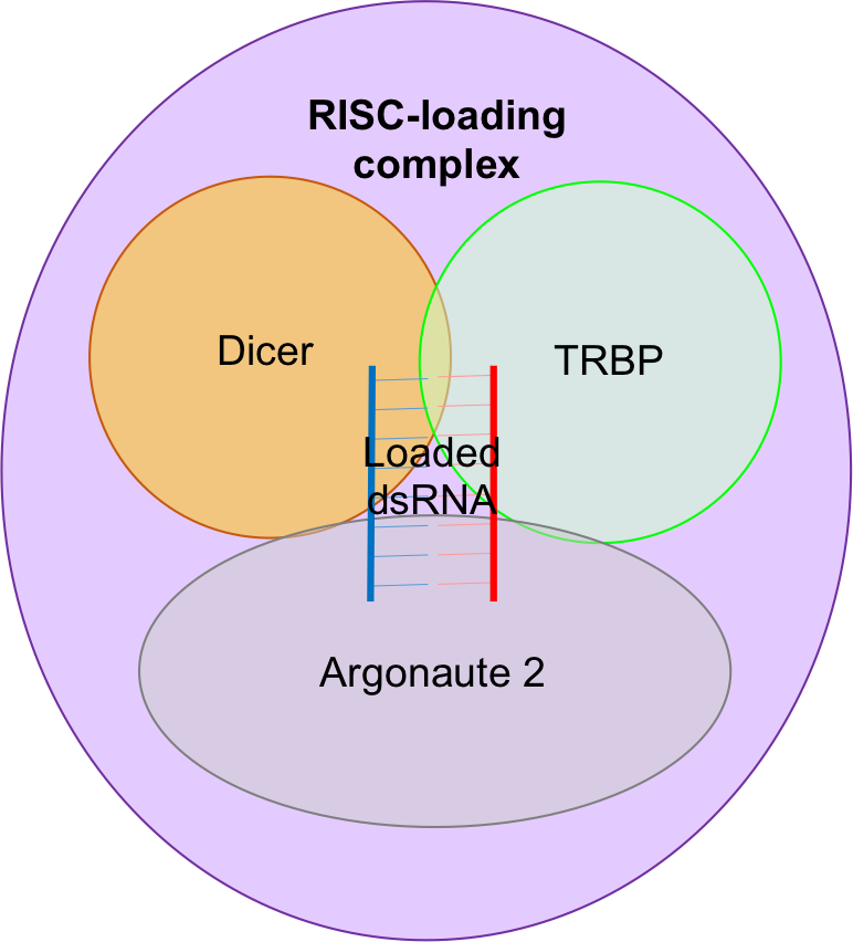 The RISC-loading complex involving the endonuclease Dicer, TRBP and Argonaute 2, the catalytic centre of RISC. This complex allows the loading of dsRNA fragments, generated by Dicer, to be loaded on to Argonaute 2 as part of the RNA interference pathway.